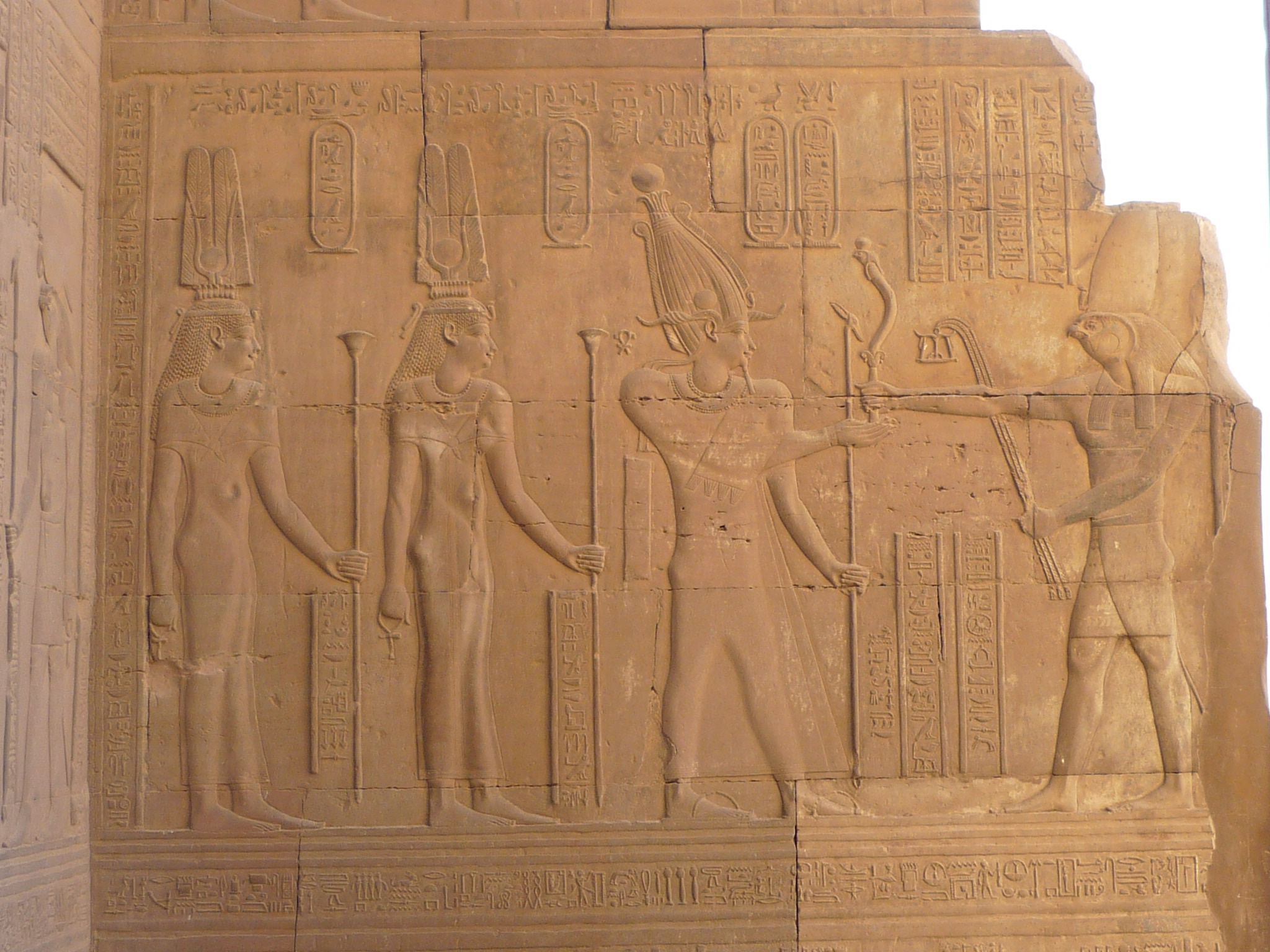 Wall relief of Horus, Ptolemy VIII and Cleopatra II and III (right to left)